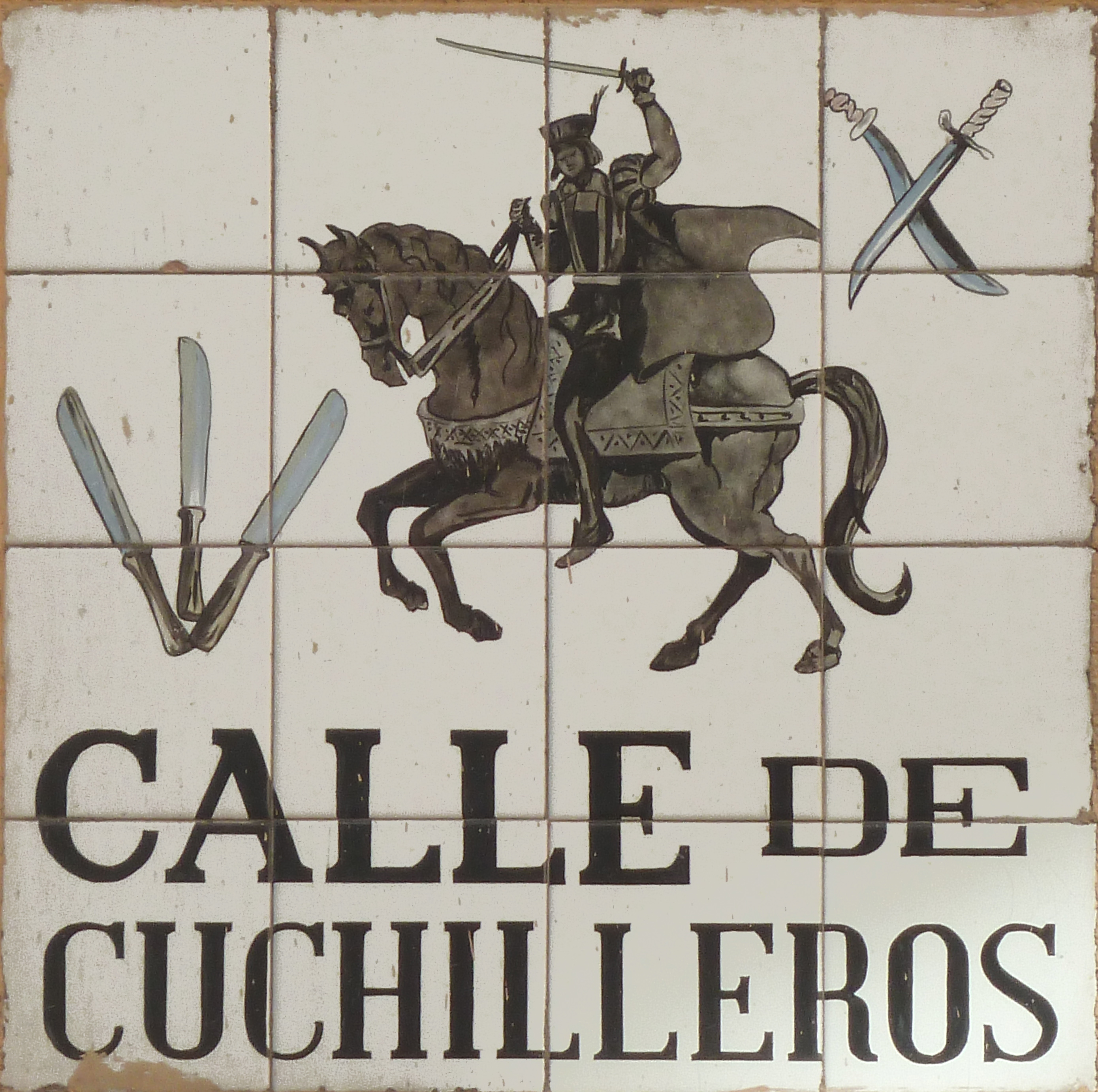 Sign of Calle de Cuchilleros (street) in Madrid (Spain).